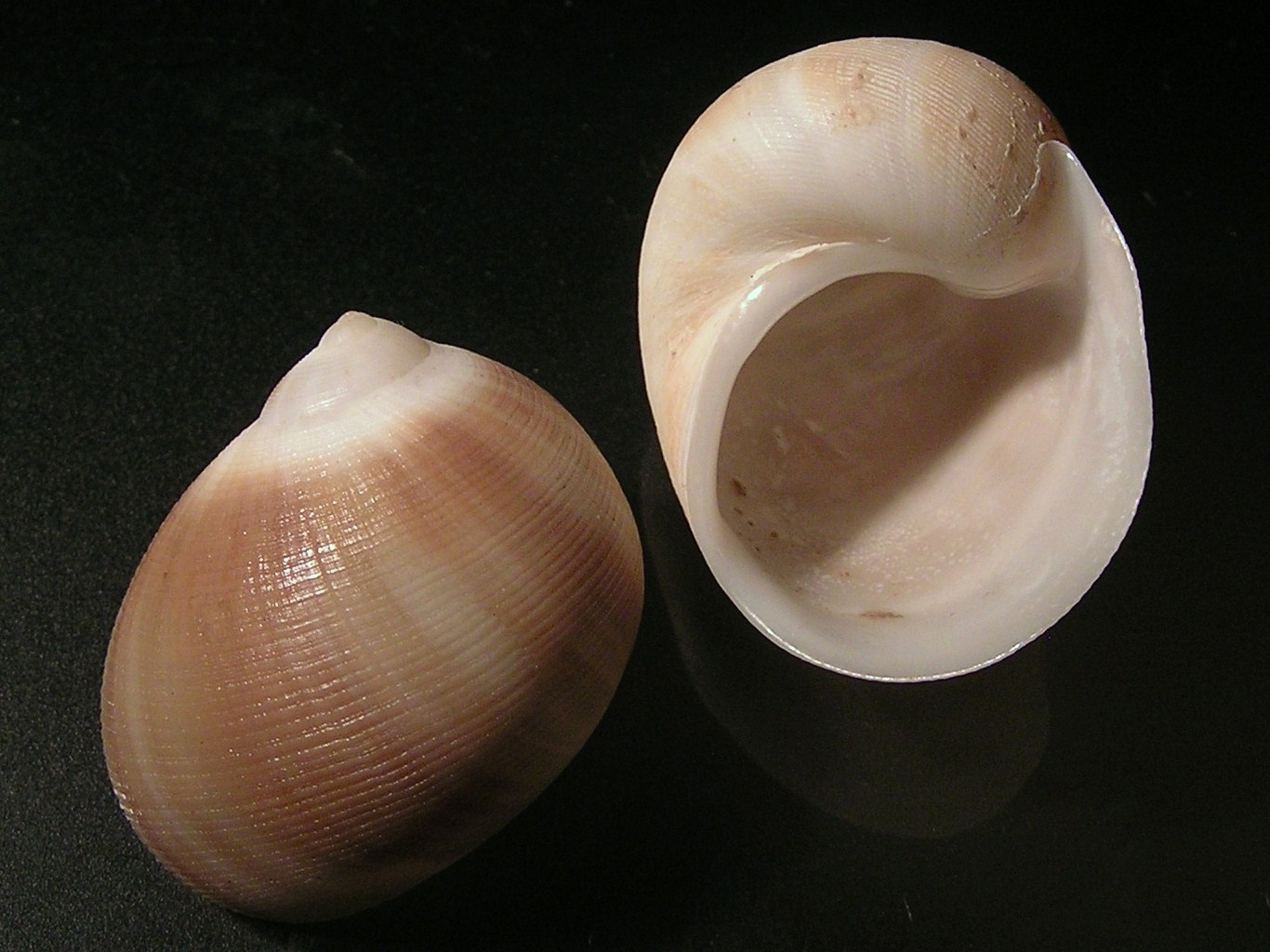 Sinum grayi, G. P. Deshayes, 1843; a moon snail from the family Naticidae; Mexico Category:Naticidae